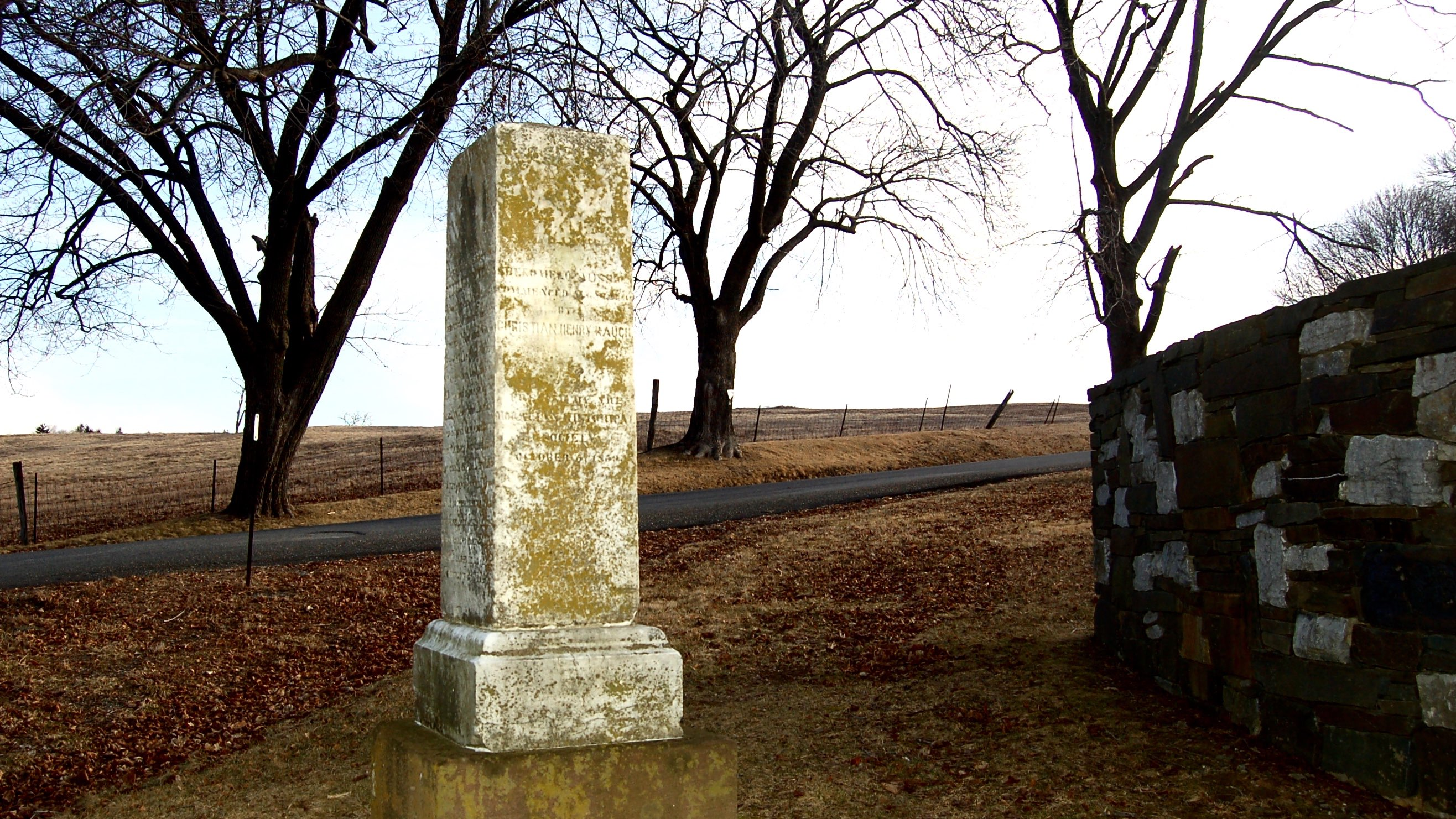 Monument to the Moravian Christian Mission at the Native American village of Shekomeko in Pine Plains, NY. Moravian Historical Society, dedicated Oct 5, 1859.